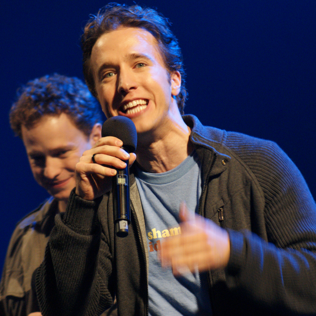 Craig Kielburger at We Day Waterloo 2011, speaking to students of Waterloo Region District School Board. Sponsored by RIM.